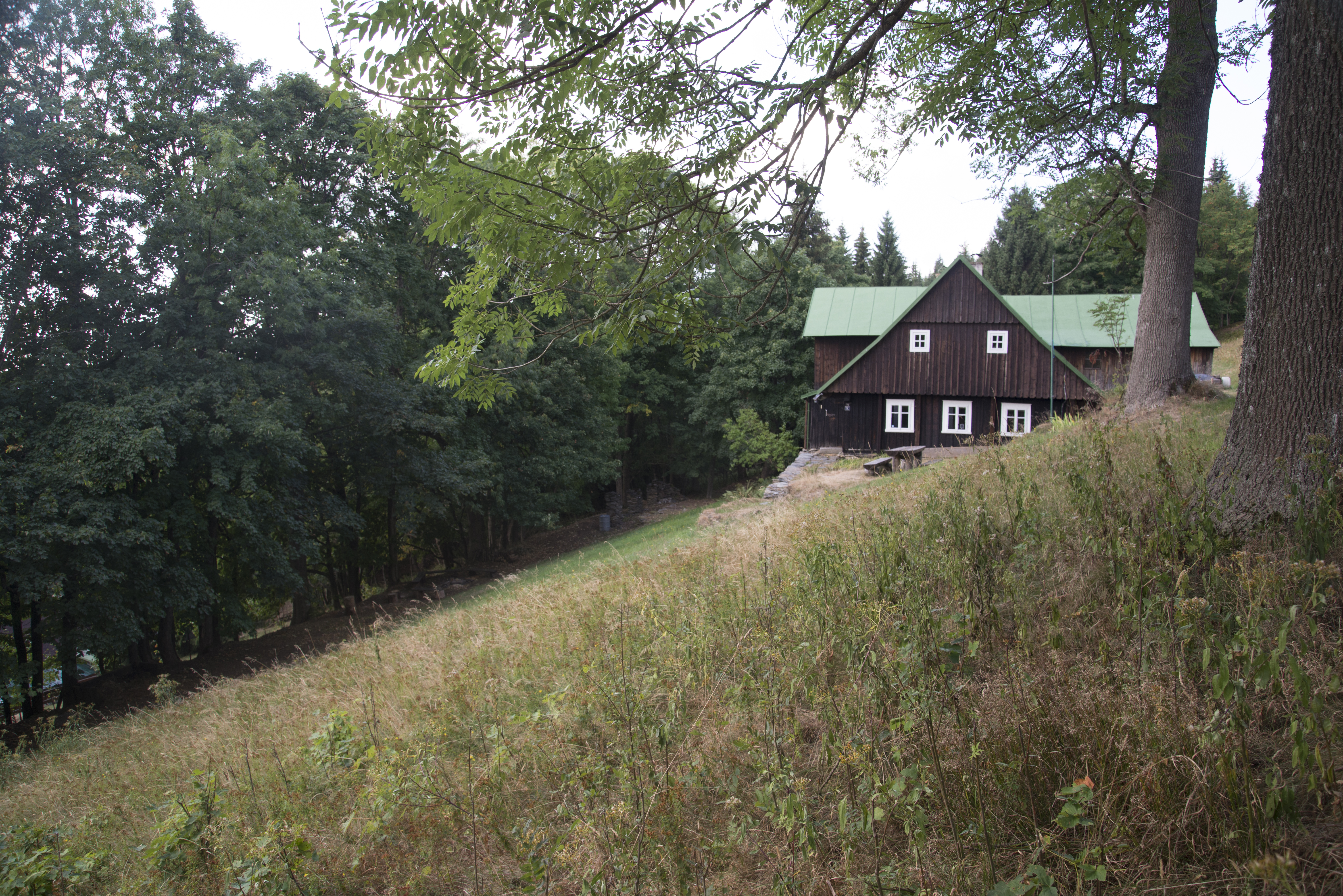 House No. 14, Hleďsebe - small village, part of city Rokytnice nad Jizerou, district Semily, Liberec Region, Czechia